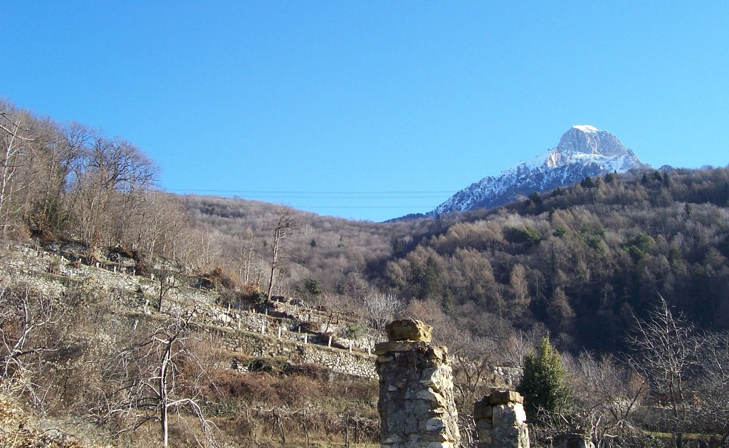 "ronchi", Nadro, Val Camonica, Italia